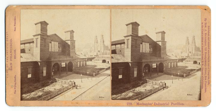 Mechanics' Industrial Pavilion. # 270. View of the Mechanics Industrial Pavilion in Union Square near the corner of Stockton and Geary Streets. Temple Emanual-El in seen on the distant right. Stereograph; 3 1/2 x 7 in.